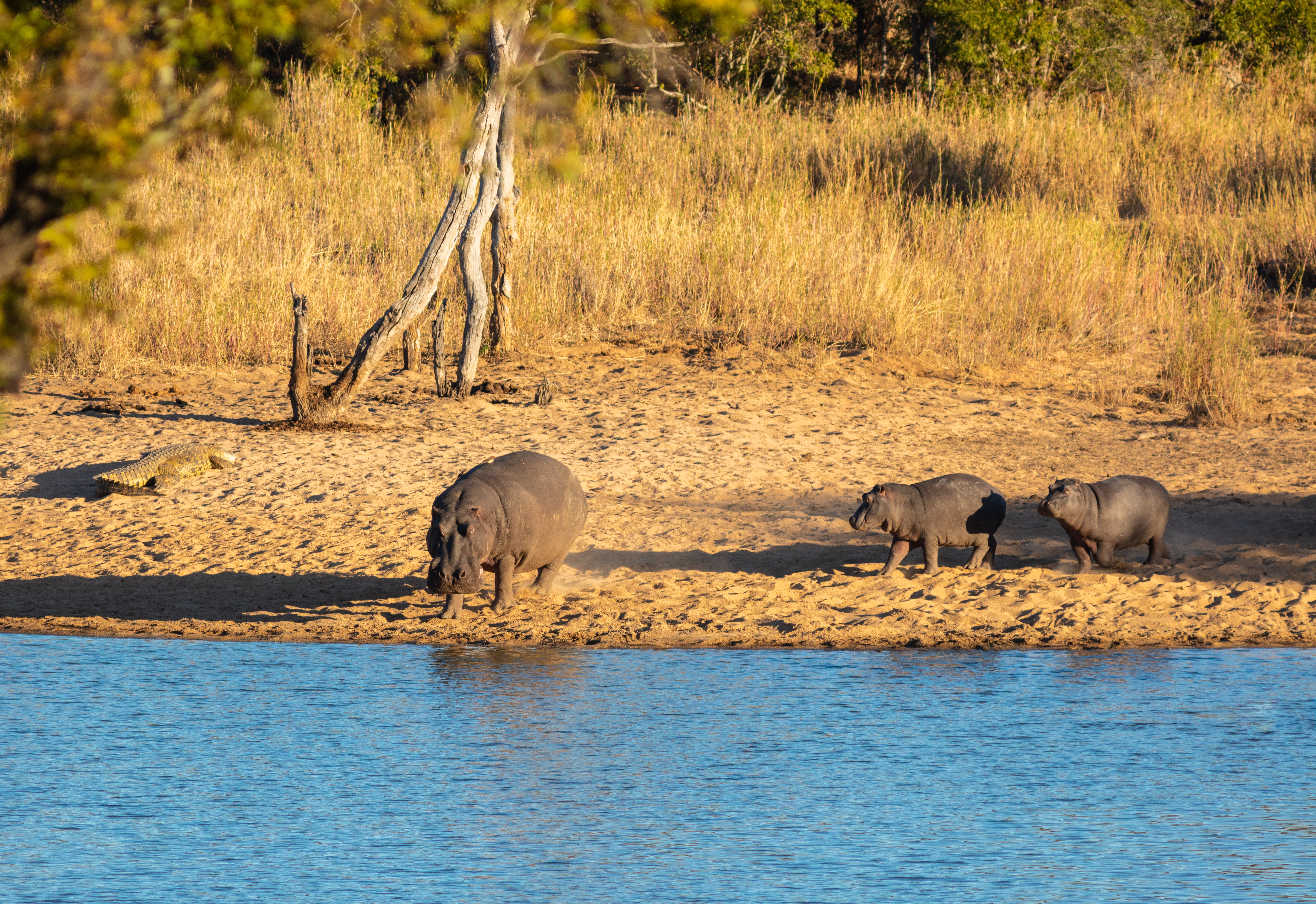 Common hippopotamus (Hippopotamus amphibius), Kruger National Park, South Africa